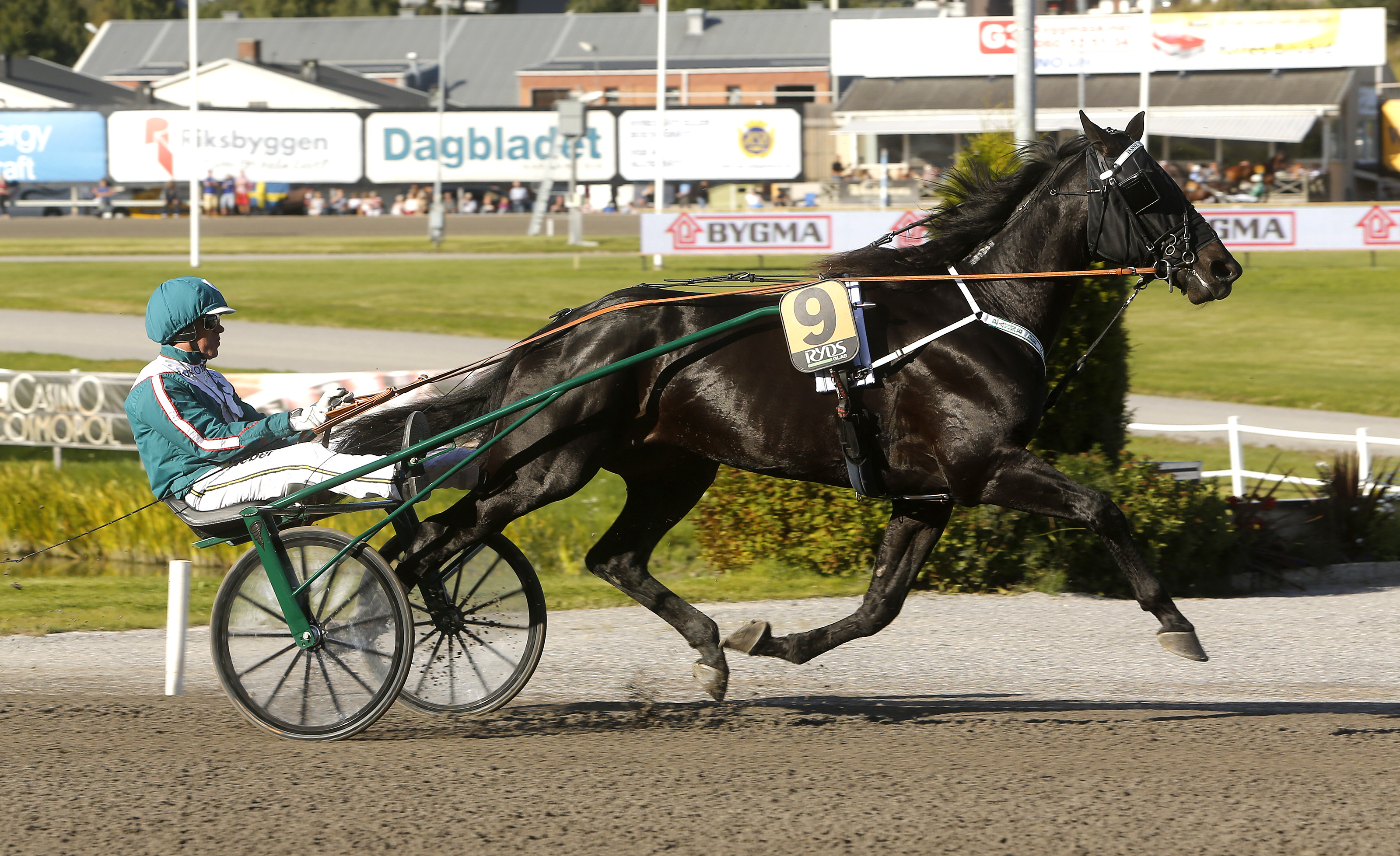 Trotting horse Panne de Moteur and driver Örjan Kihlström.